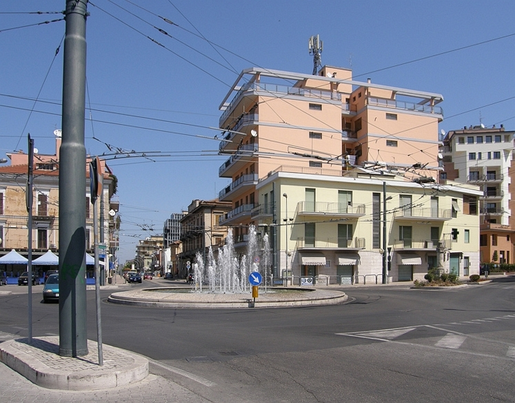 Chieti